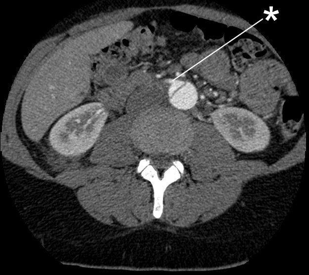 CT scan of aortic dissection type Stanford B (* = right A. renalis affected)